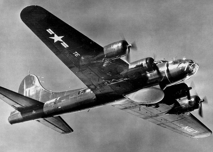 A U.S. Navy Boeing PB-1W Fortress (BuNo 77138) from early warning squadron VW-1 in-flight near Hawaii (USA), in January 1954. Under a program known as Cadillac II, the U.S. Navy fitted the APS-20 radar system onto the B-17G aircraft, giving it the designation PB-1W.